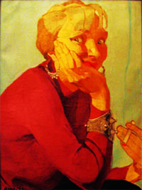 selfportrait in oils of Anita Parkhurst Willcox, circa 1936